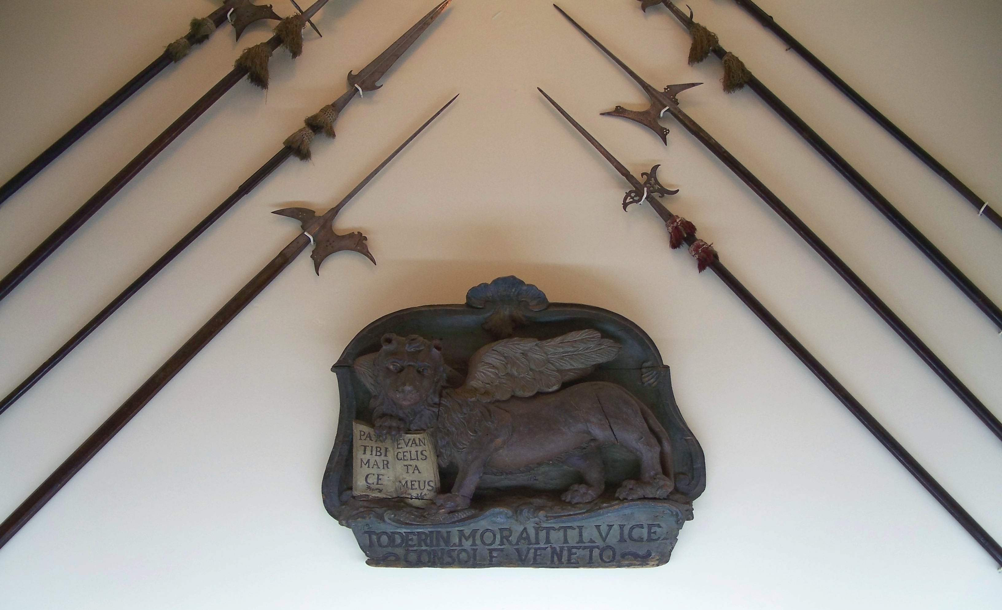 The Venetian Lion of Moreas surrounded by Venetian spears of the time. National Historical Museum, Athens, Greece.